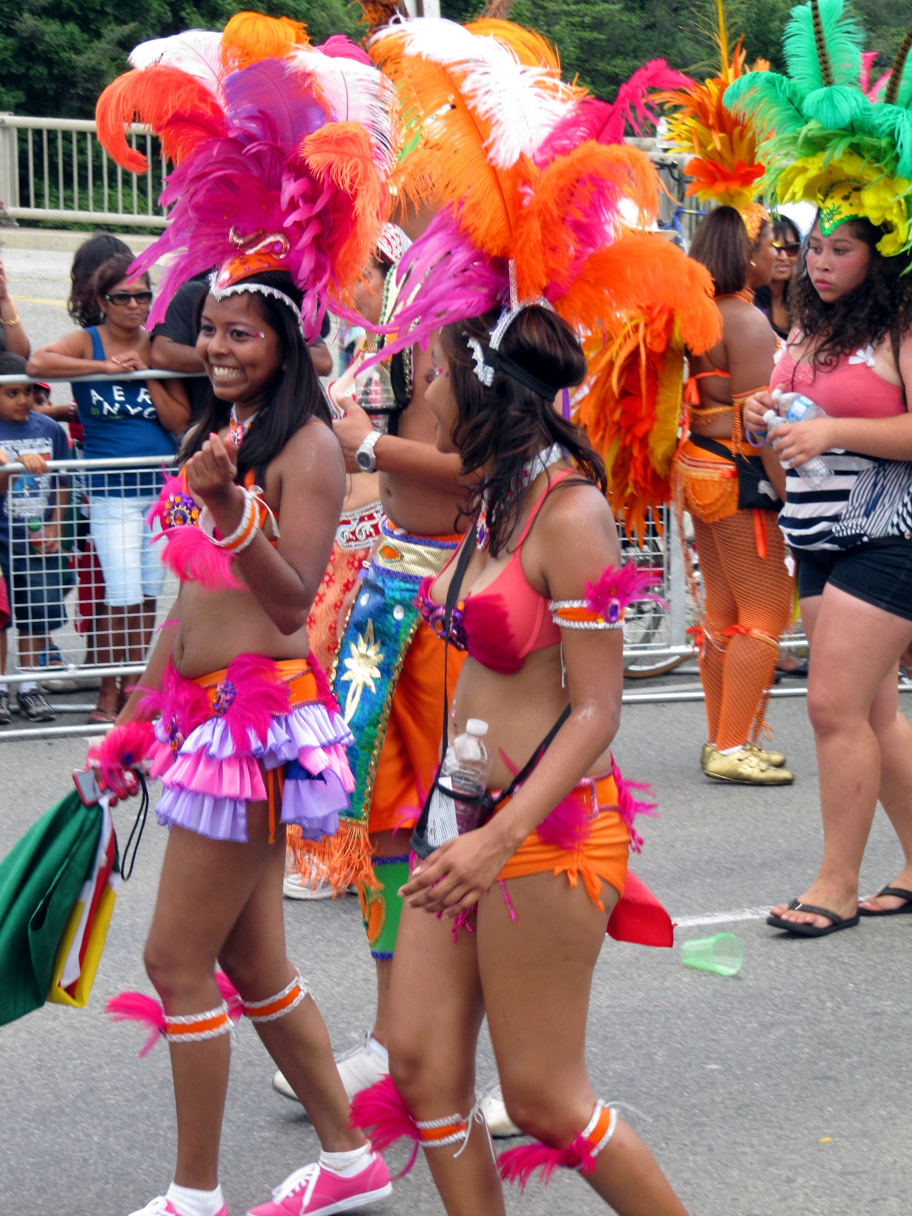 Generally speaking, the most important aspect of a good Caribana costume is that you should be wearing more on your head than on the rest of your body combined. Well done, ladies! 2010 Caribana parade in Toronto.